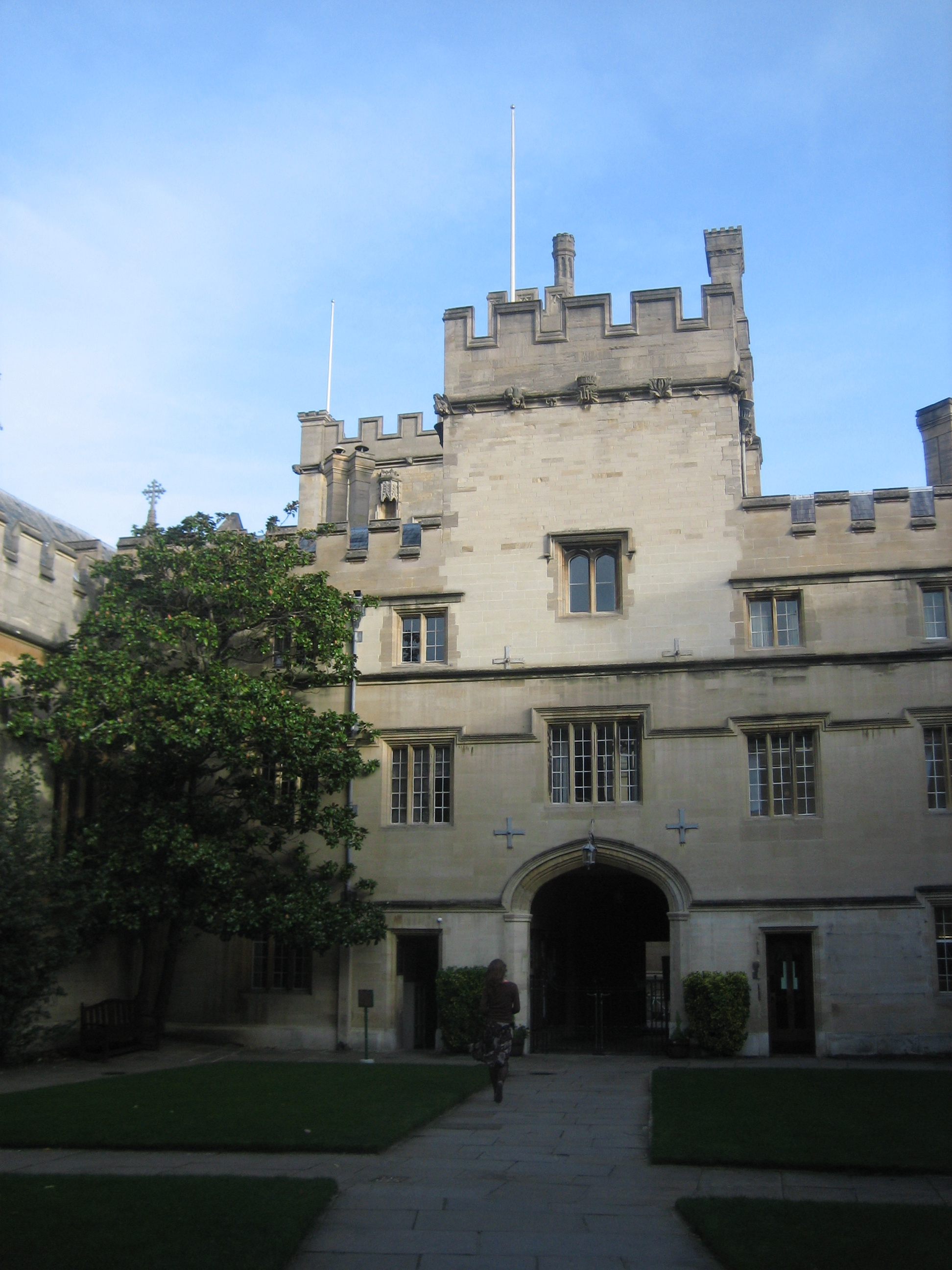 A view of the First Quad of Jesus College, Oxford, looking towards the main entrance